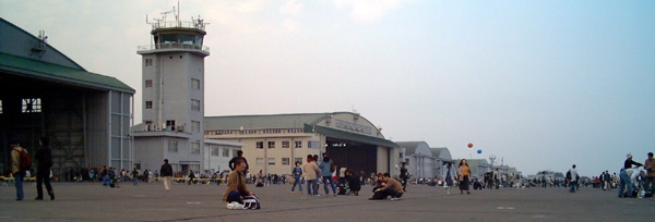 Hangar, Control tower, Iruma Airbase 2006 Japan